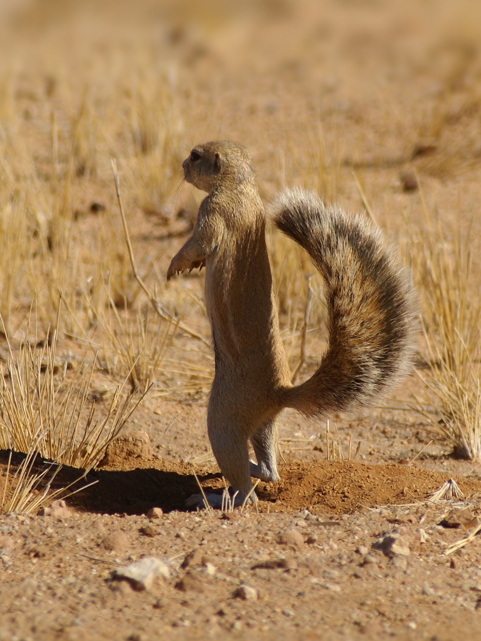 A Cape Ground Squirrel close to Solitaire in the Namib desert, Namibia